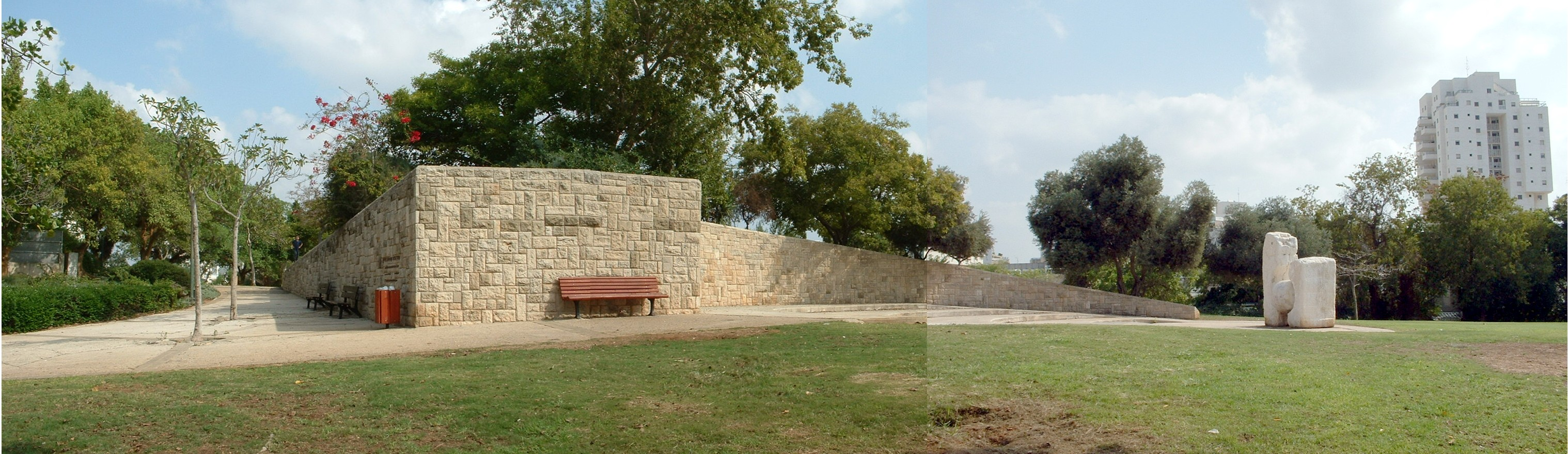 Berlin Park, Tel Aviv